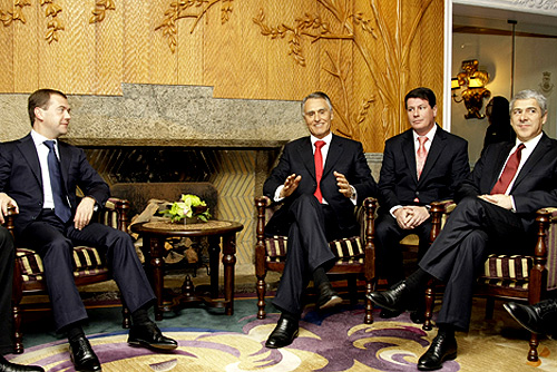 LISBON. With Portuguese President Anibal Cavaco Silva and Portuguese Prime Minister Jose Socrates.